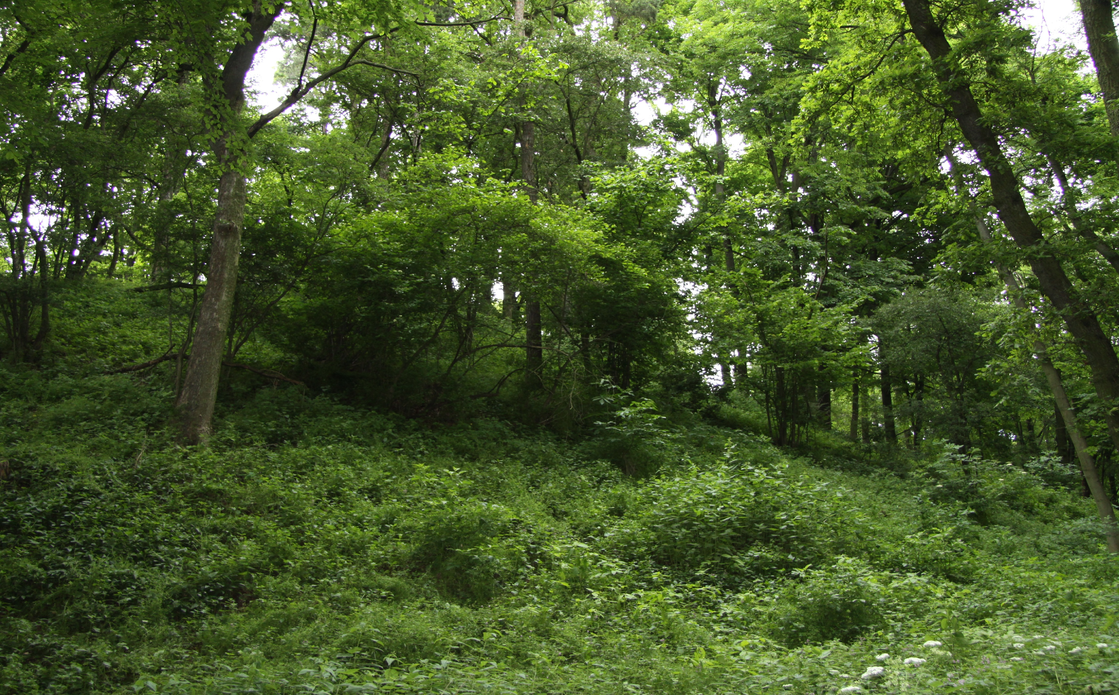 Natural reservation Prácheň near Horažďovice, Klatovy District, Czech Republic. This photograph was taken within the scope of the 'Czech Municipalities Photographs' grant. - Google Maps - Google Earth